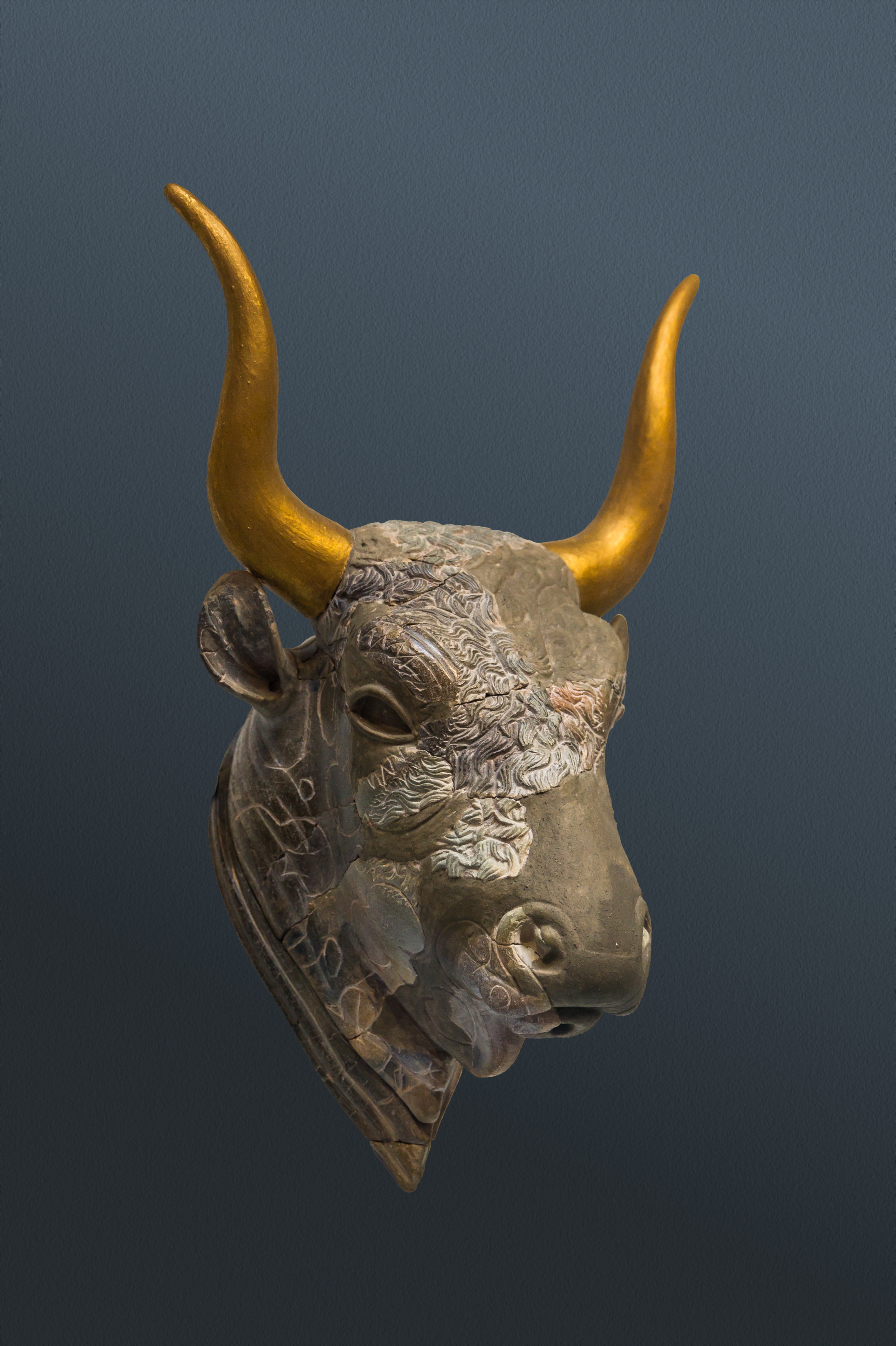 Bull's head rhyton, found in Zakros, Central Sanctuary Complex, 1500 - 1450 BCE